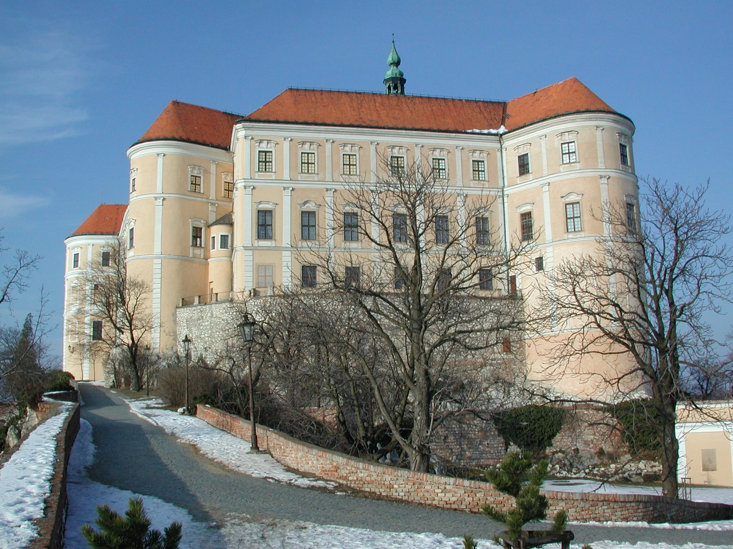 Castle of Mikulov in southern Moravia, Czech Republic